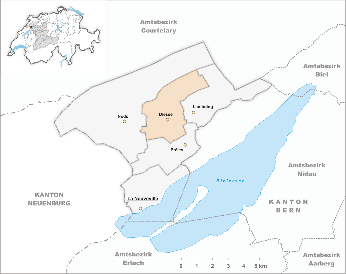 Municipality Diesse